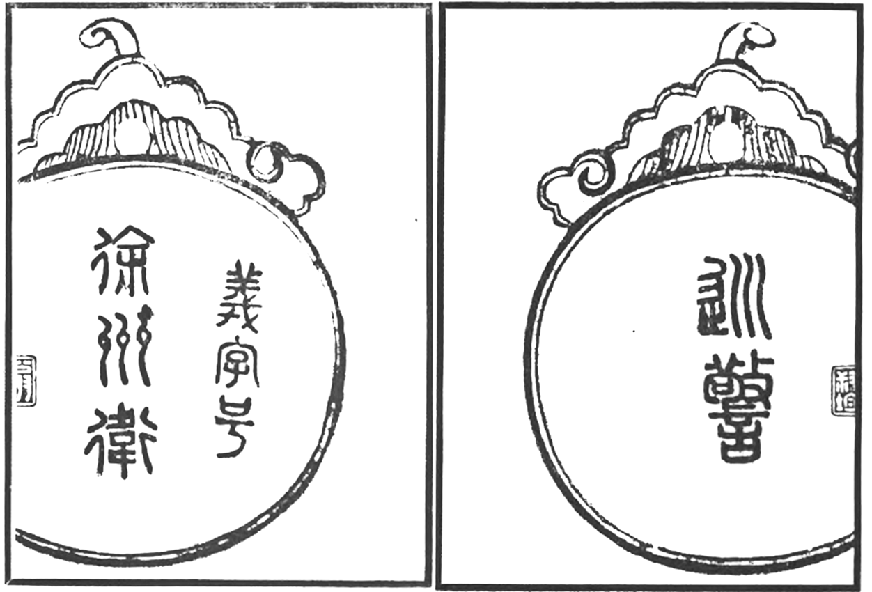 The rubbing images of a copper identification token (which usually fastened on a belt) for a patrol officer in Xuzhou Guard. Its front was engraved with "Xuzhou Guard" in seal script, while the back was engraved with "Patrol".